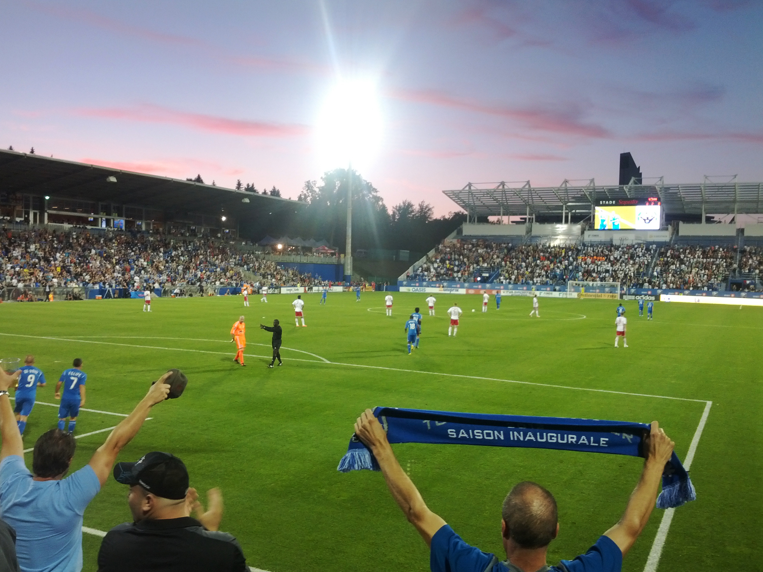 Celebrations of a Montreal Impact goal against the visiting New York Red Bulls at Saputo Stadium in Montreal, 28 July 2012. Goal scored by Marco Di Vaio (#9) against goalkeeper Bill Gaudette (orange). Writing on fan' scarf: "Inaugural season"